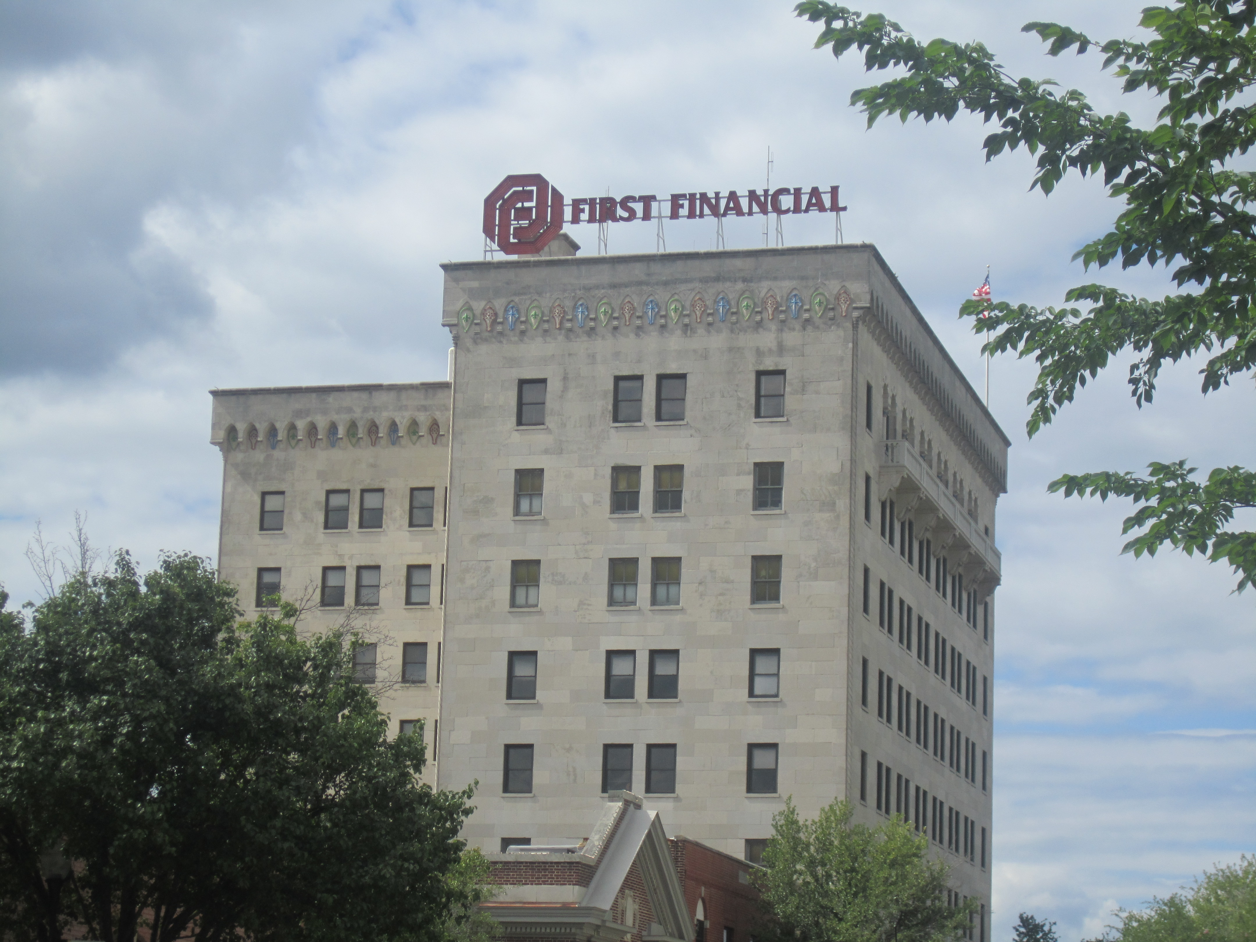 I took photo with Canon camera of First Financial Bank in El Dorado, AR.